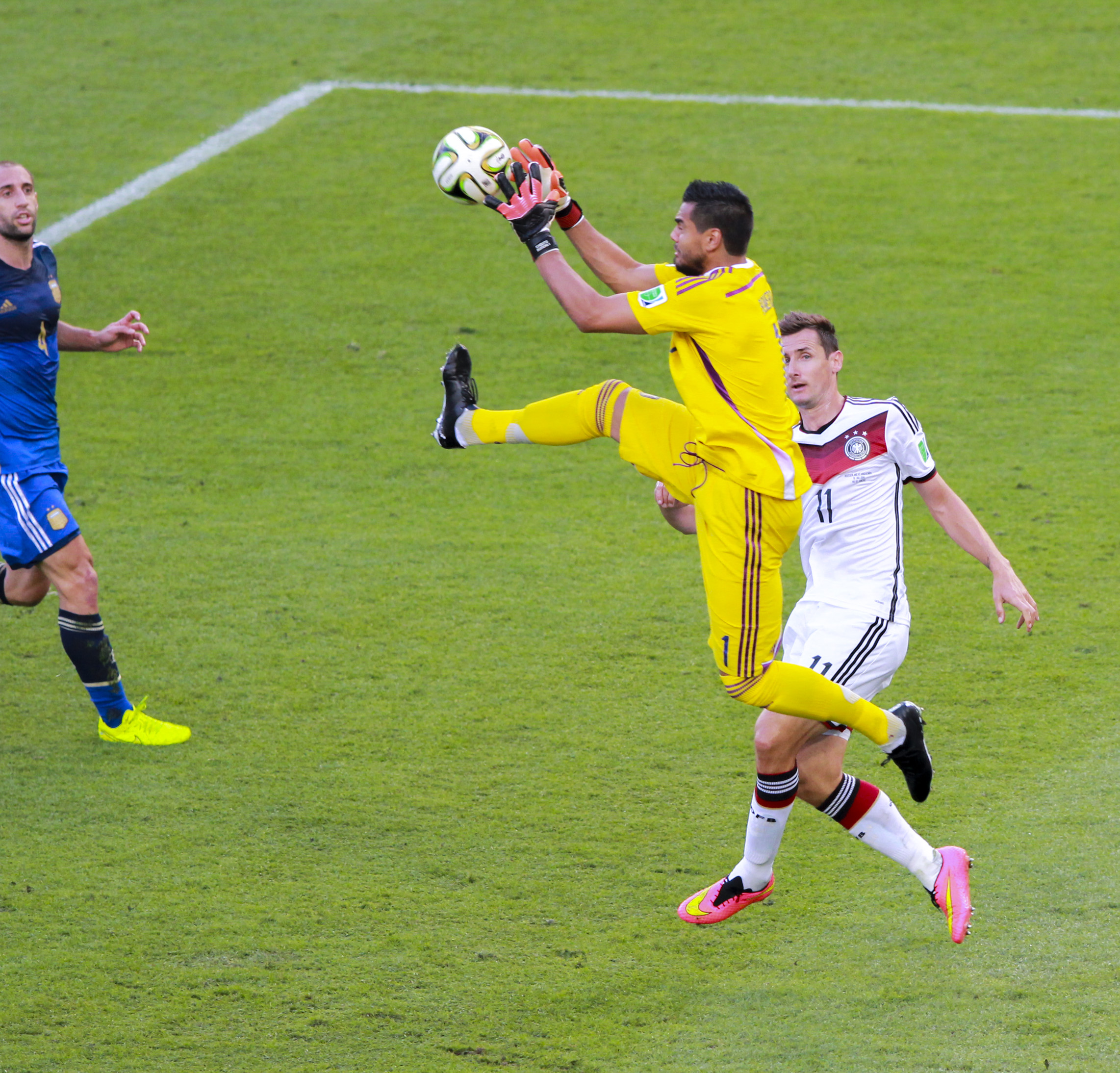 The final match of World Cup 2014 between Germany and Argentina 2014-07-13